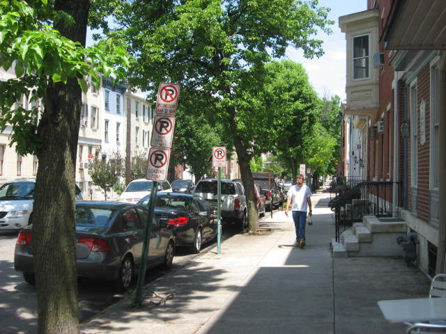 Lawyers and professional offices along Swede Street in Norristown, PA